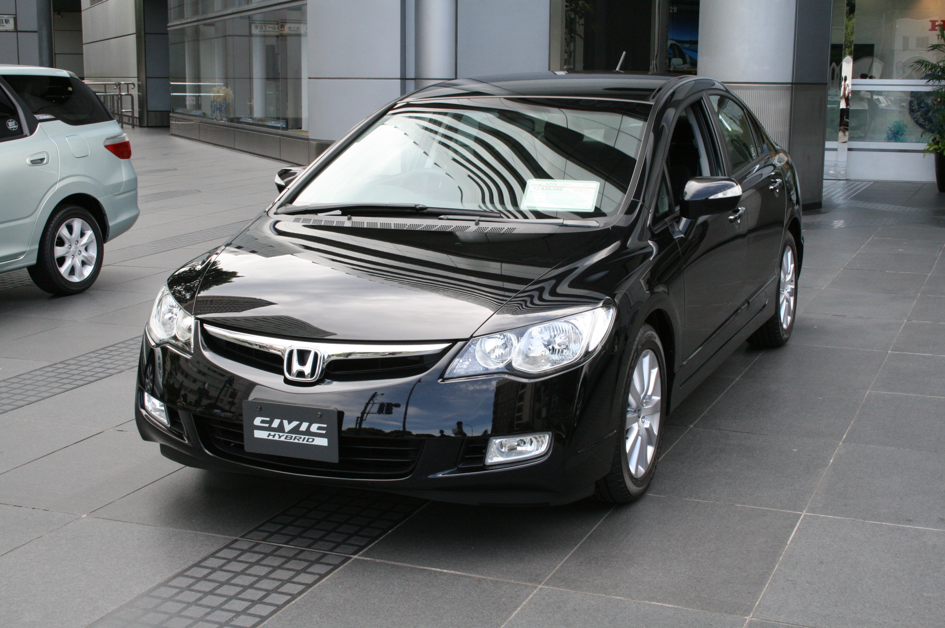 Honda Civic Hybrid.